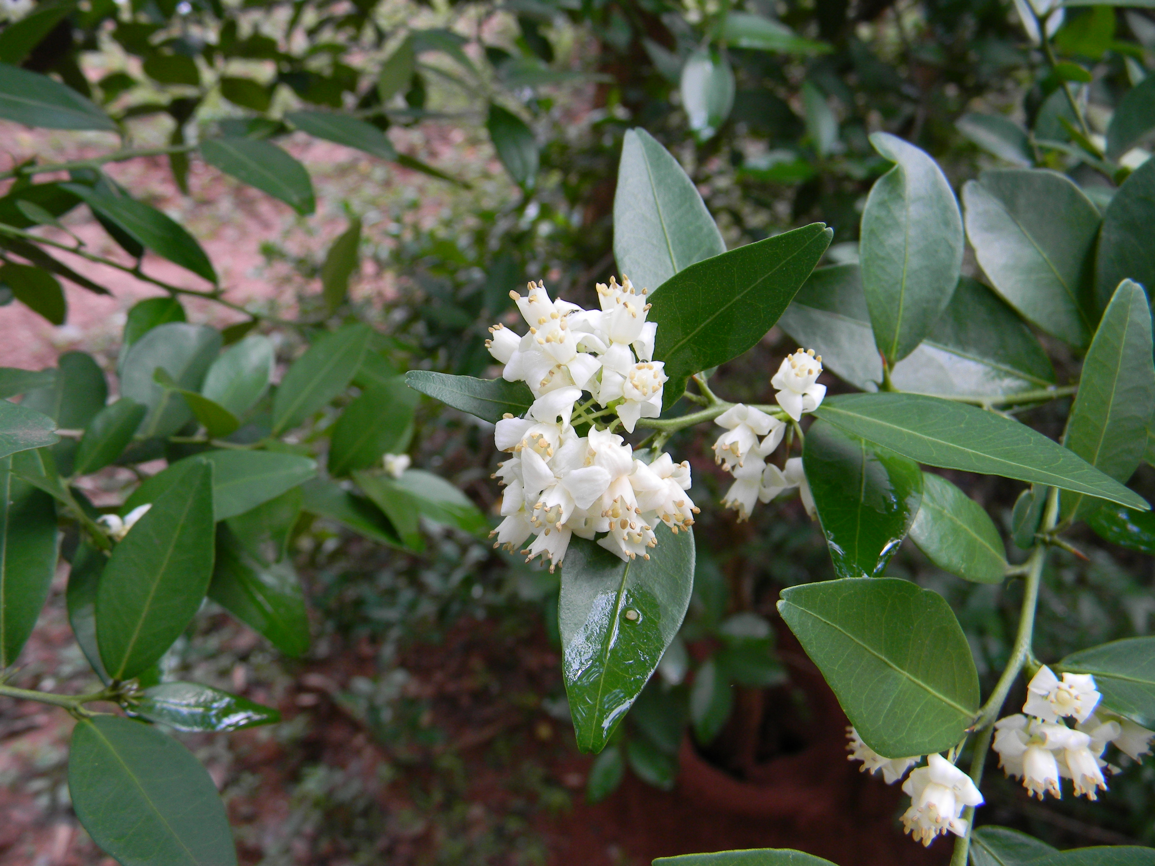 small white star-shaped flowers